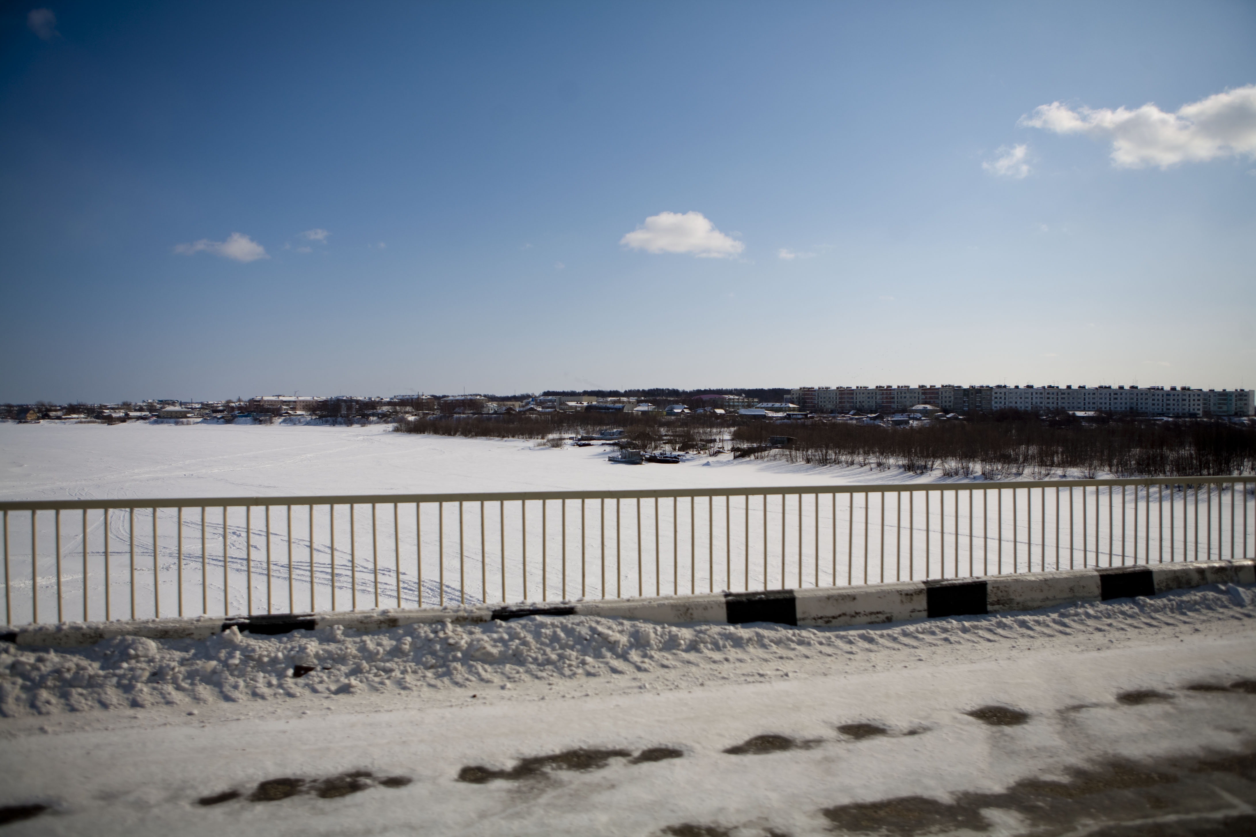 View of Nogliki from the bridge; Russia. Photo by Brian Tibbets ( March 2009